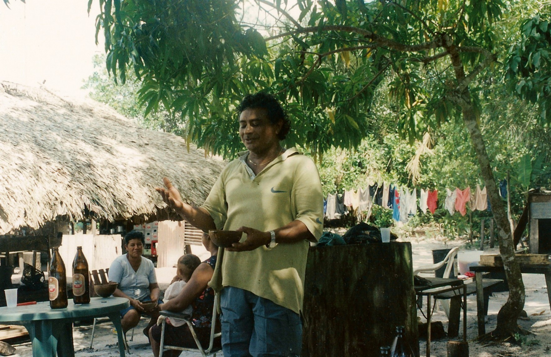 An elder speaks to the Kali'na community at Bigi Poika in Suriname.